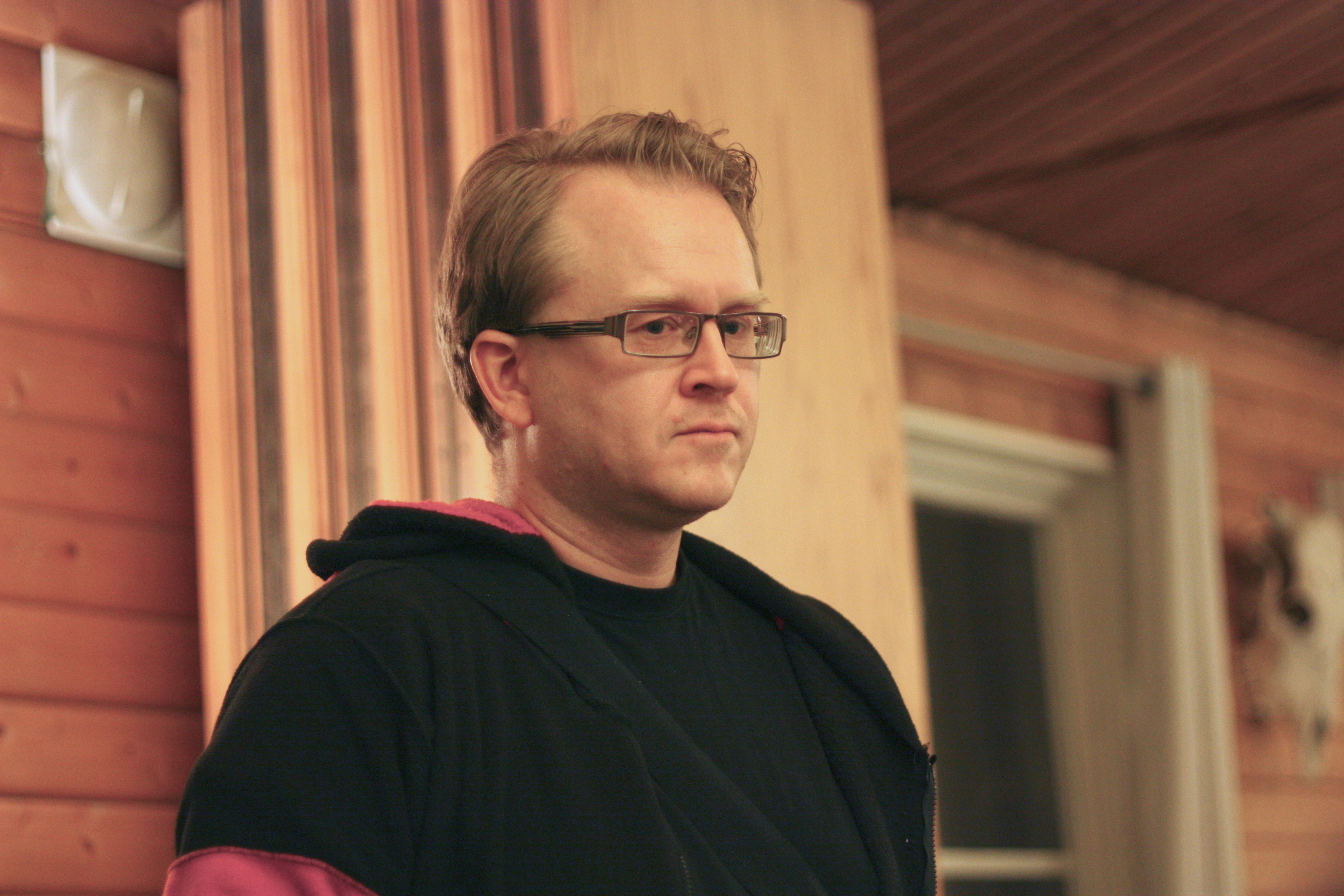 Swedish fantasy writer Pål Eggert, 2010.